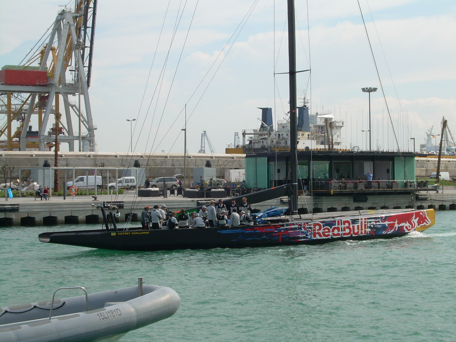 Victory Challenge sailing team entering Valencia´s port during the 2006-07 America´s Cup.